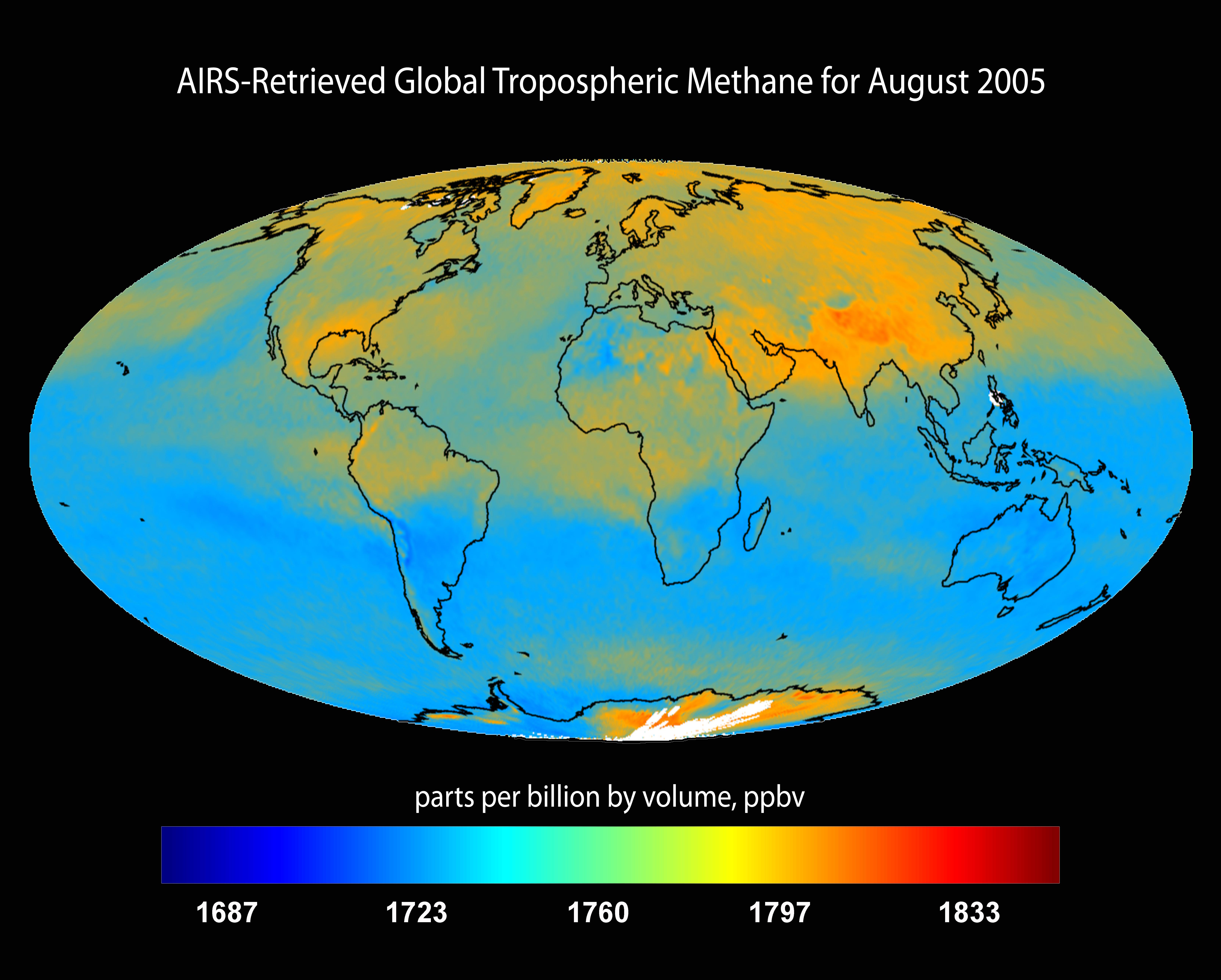 Global Tropospheric Methane for August 2005 (SeaWiFS Project, NASA/Goddard Space Flight Center and ORBIMAGE.) Primary